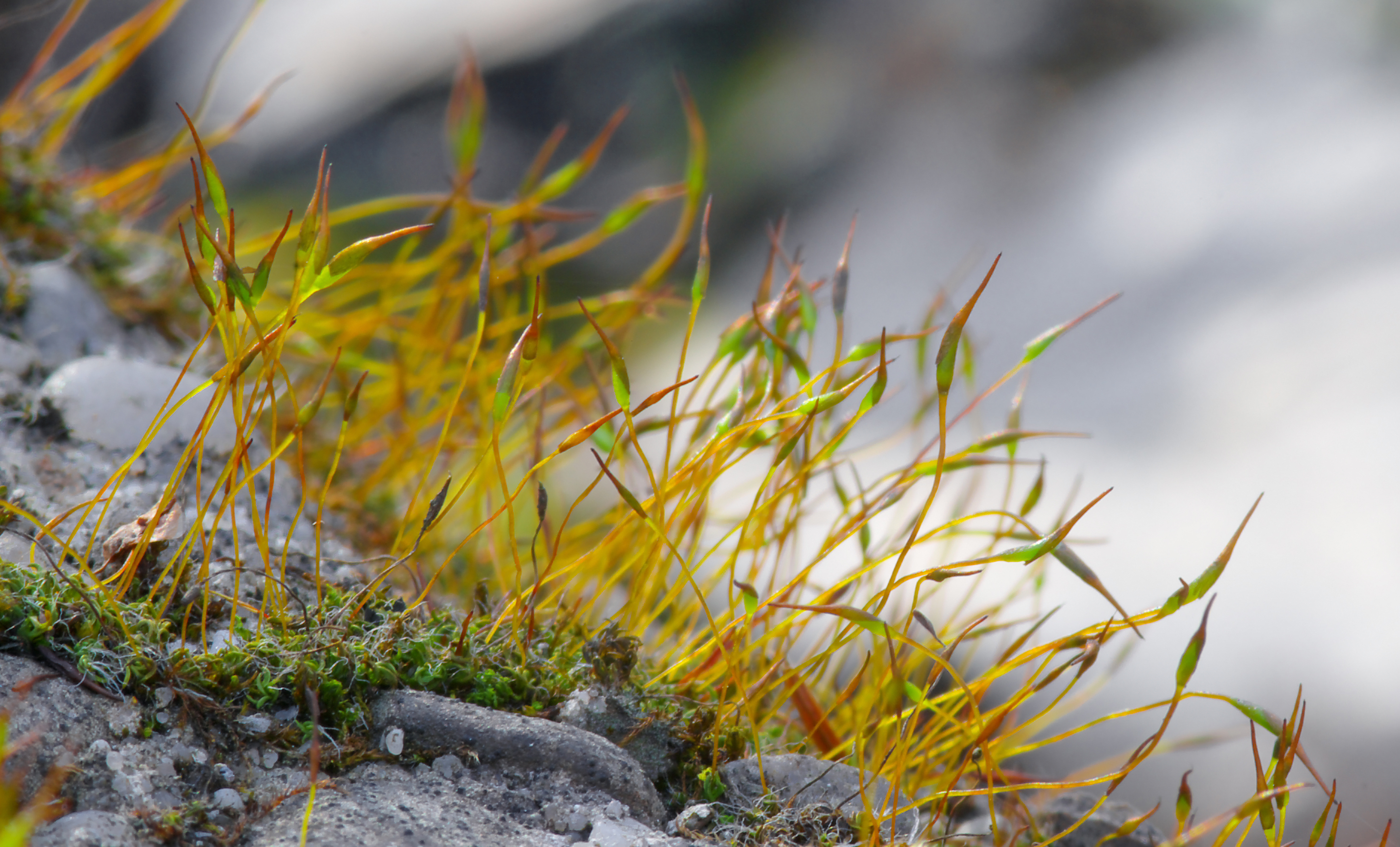 Tortula muralis - Sporophytes